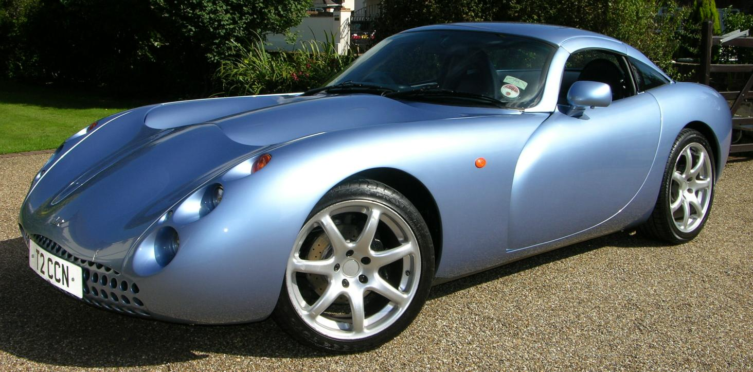 2000 TVR Tuscan 4.0 Speed Six